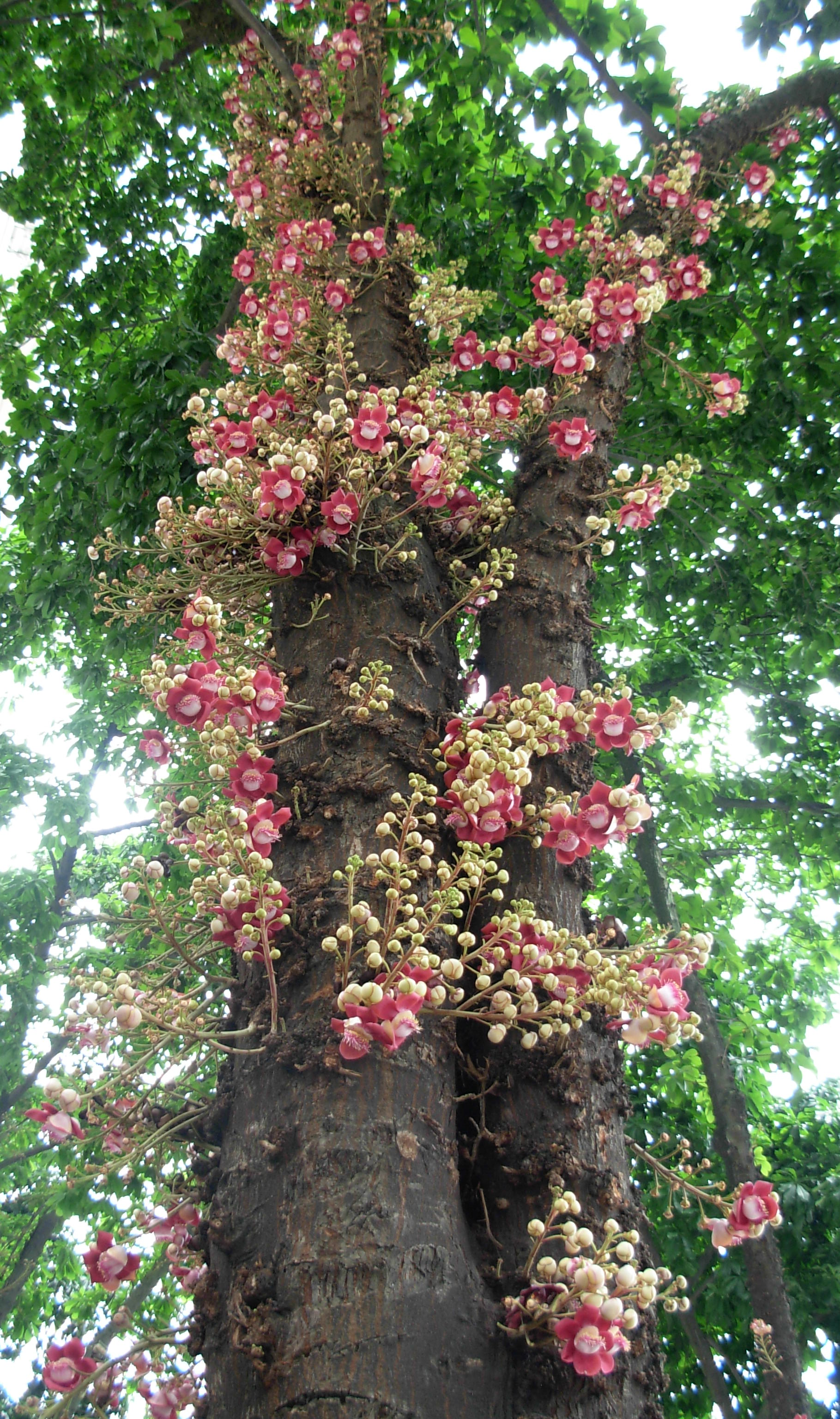 Canon ball tree, Couroupita guianensis (flowers) in Rio de Janeiro, Brazil. In front of the Imperial palace, corner of Rua da Assembleia